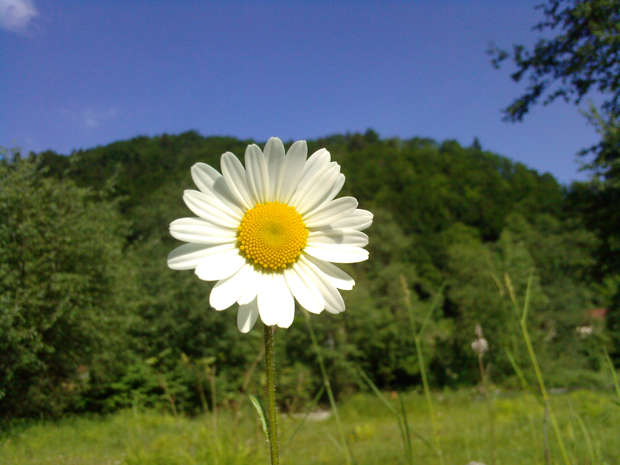 Oxeye Daisy (Leucanthemum Vulgare)